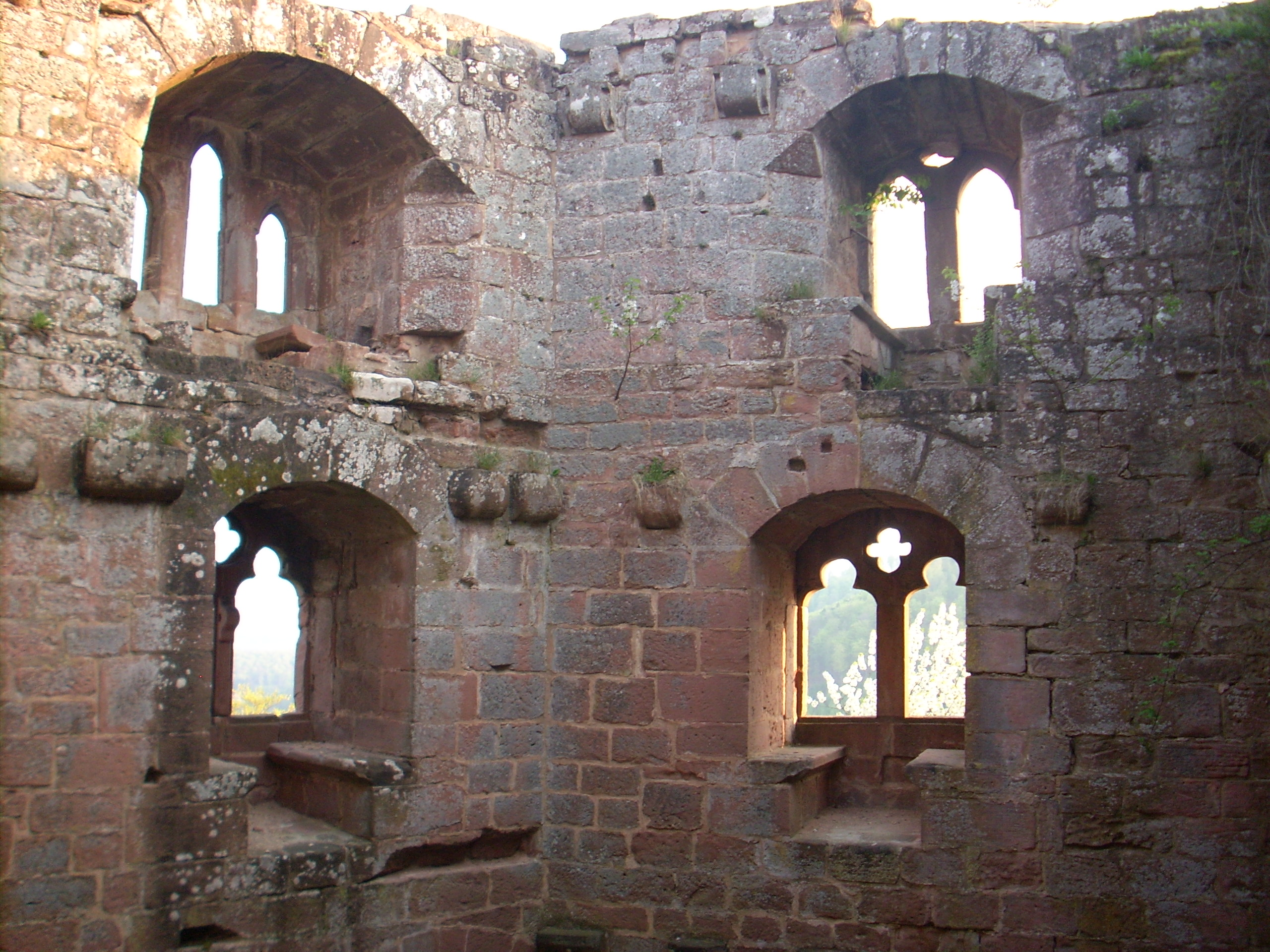 Nouveau-Windstein castle, (Alsace - France)